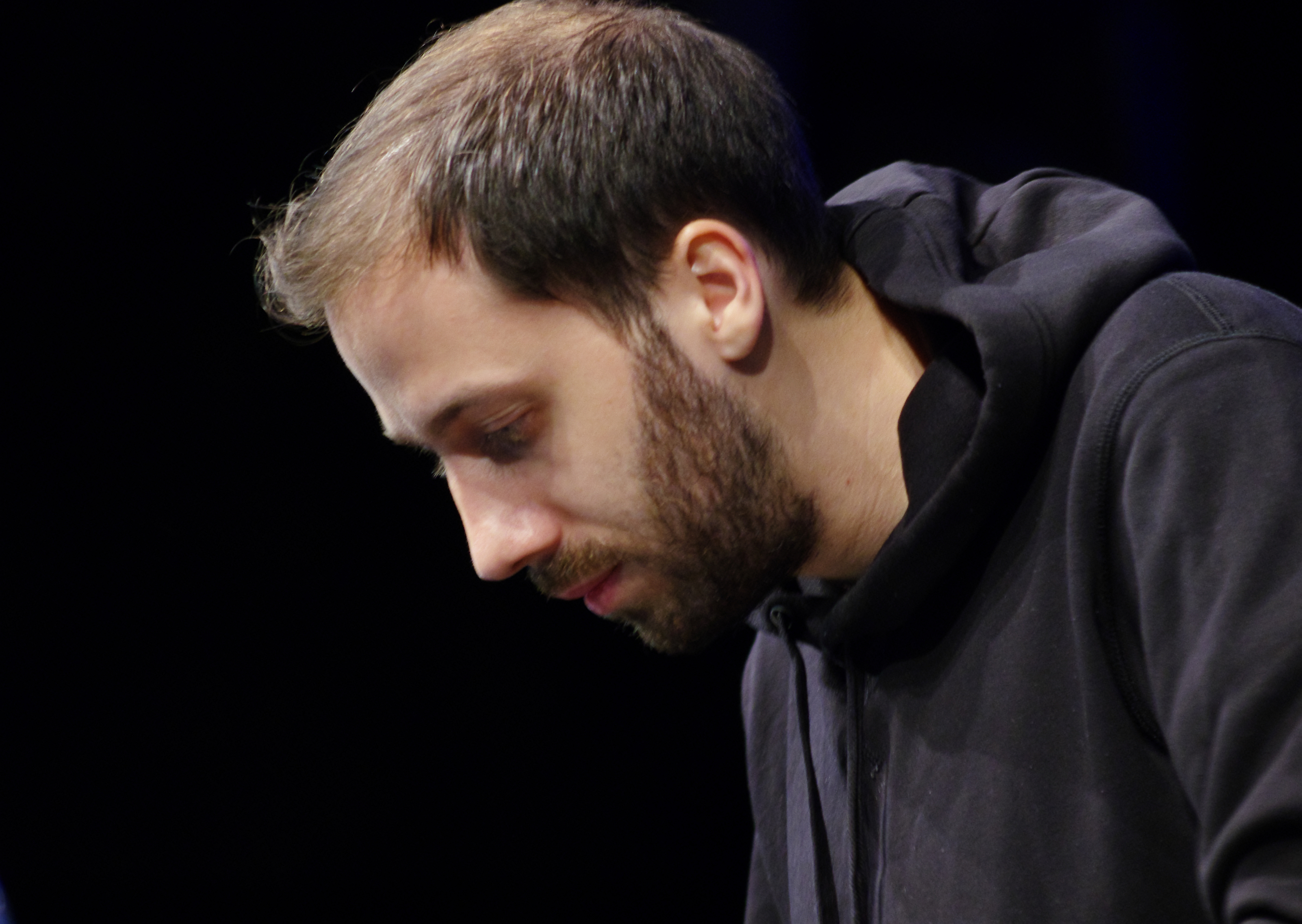 Gold Panda, electronic music producer, performer, and composer from the United Kingdom, performing at Haldern Pop 2013